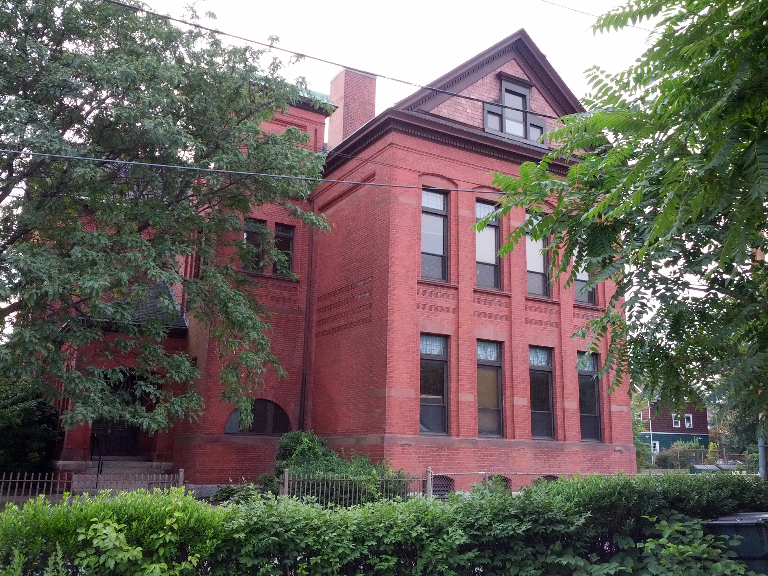 Smith Street Primary School. Photograph taken from Esten Street. Address on Smith Street side of the building is listed as 400 Smith Street.